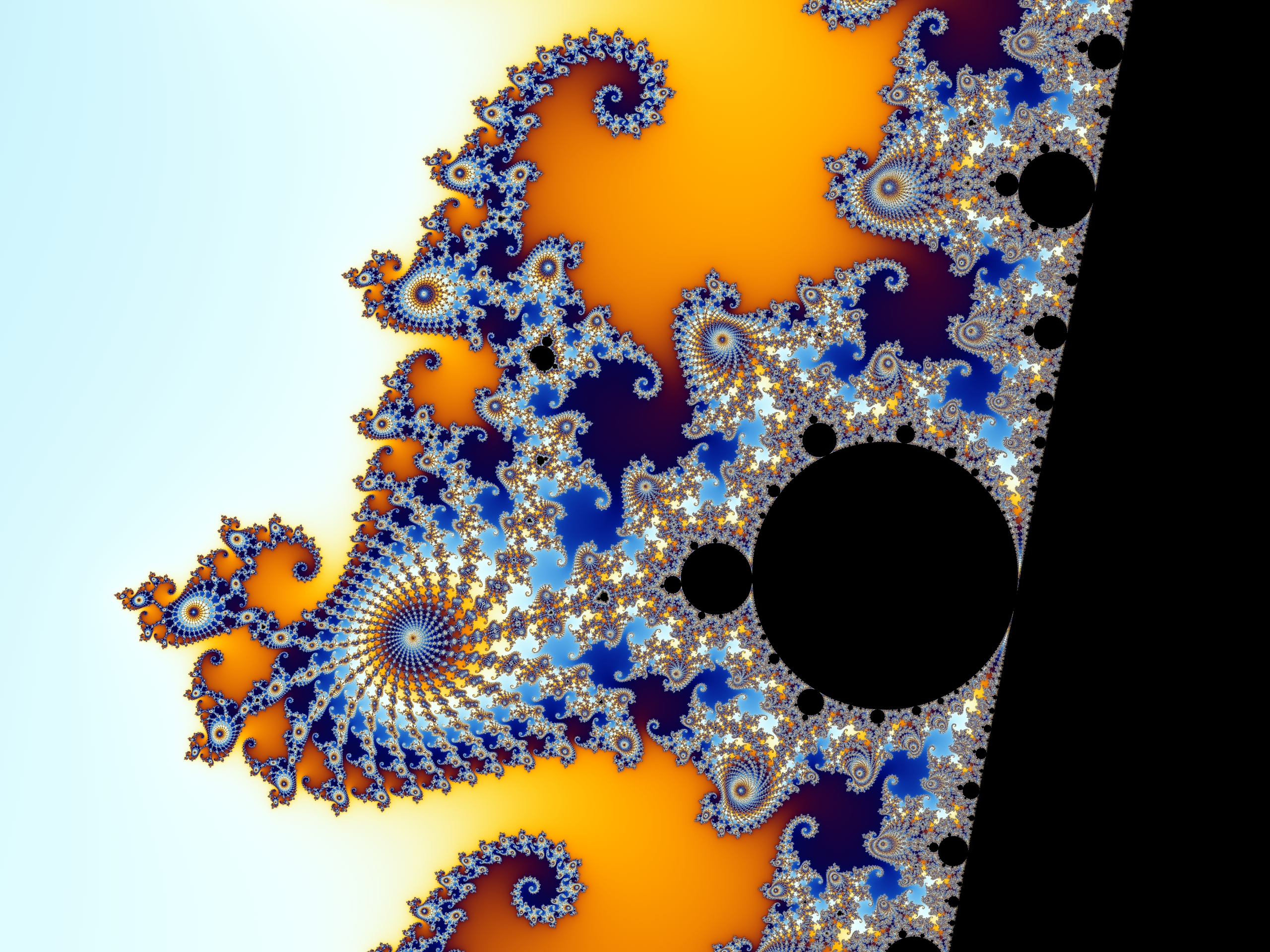 Partial view of the Mandelbrot set. Step 3 of a zoom sequence: "Seahorse" upside down. Its "body" is composed by 25 "spokes" consisting of 2 groups of 12 "spokes" each and one "spoke" connecting to the main cardioid. These 2 groups can be attributed by some kind of metamorphosis to the 2 "fingers" of the "upper hand" of the Mandelbrot set. Therefore the number of "spokes" increases from one "seahorse" to the next by 2. The "hub" is a so called Misiurewicz point. Between the "upper part of the body" and the "tail" a distorted satellite can be recognized. Coordinates of the center: Re(c) = -.743,030, Im(c) = .126,433 Horizontal diameter of the image: .016,110 Magnification relative to the initial image: 190.99 Created by Wolfgang Beyer with the program Ultra Fractal 3. Uploaded by the creator.